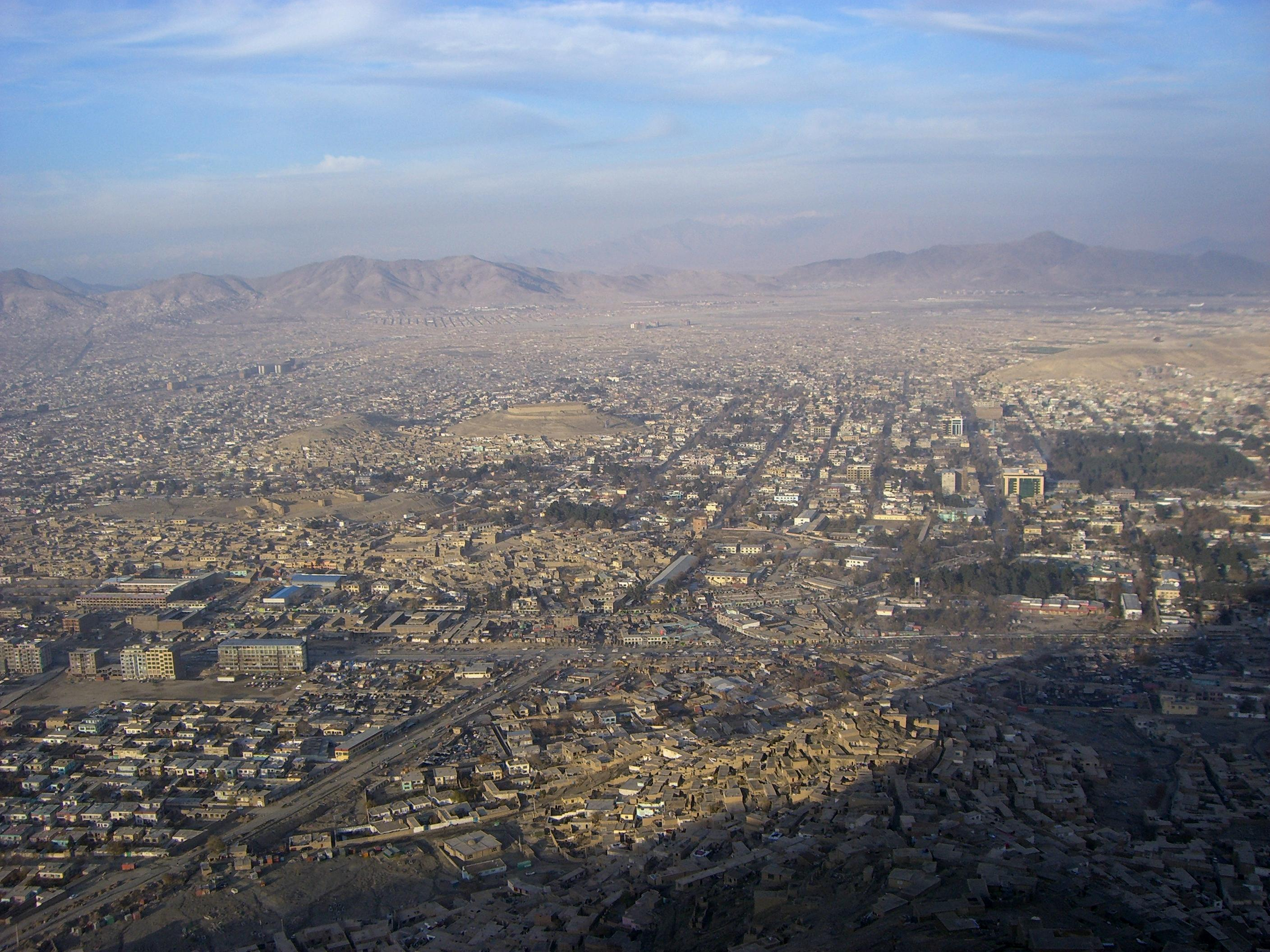 View of Kabul from TV-Hill, Afghanistan